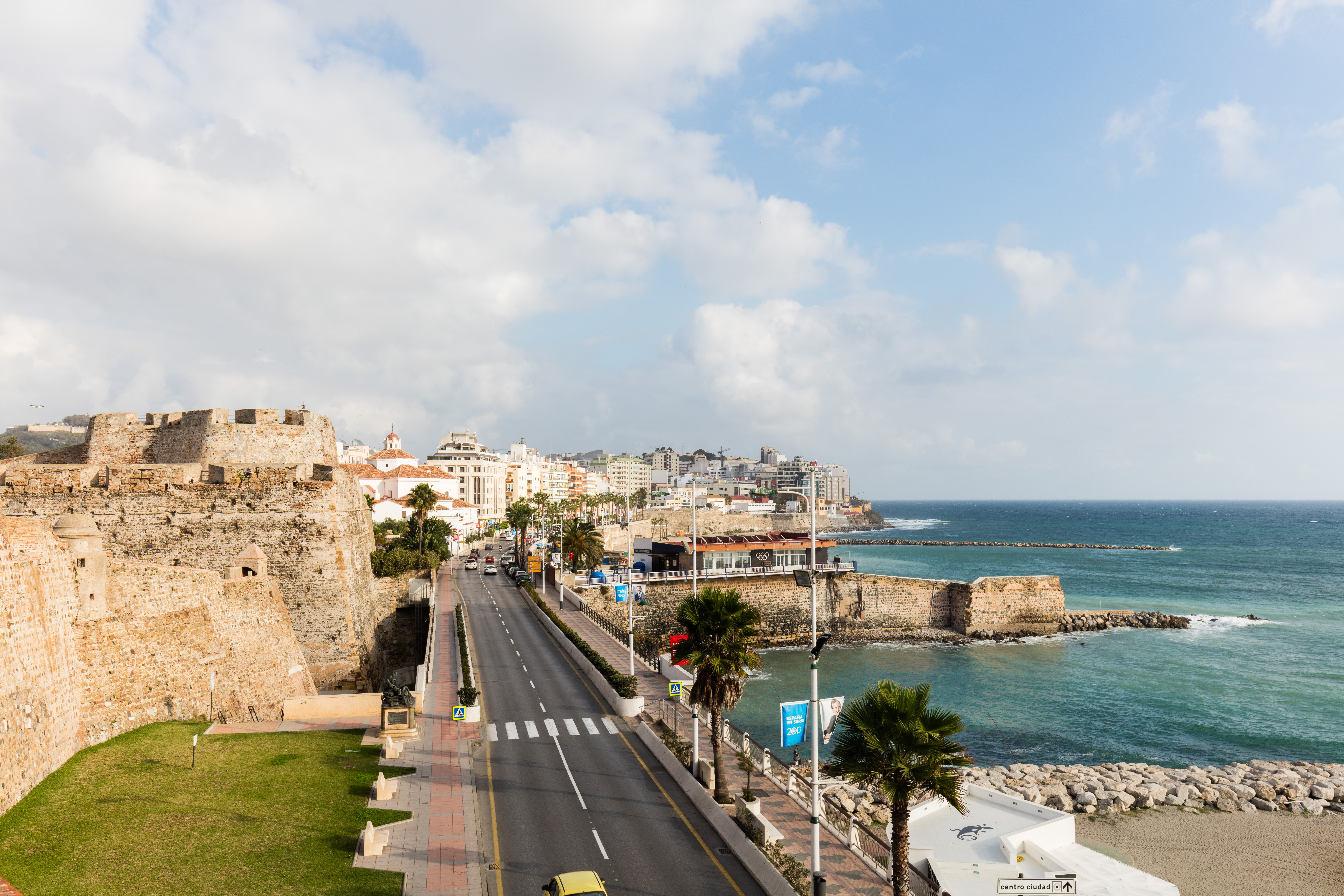 Coast of Ceuta, Spain